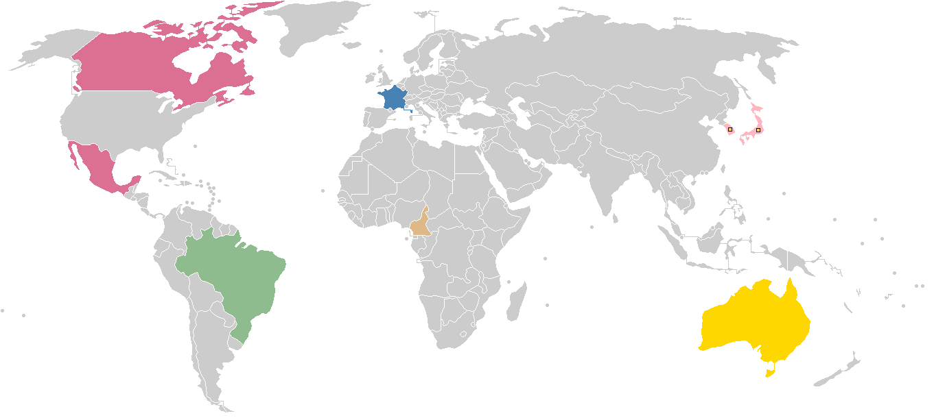 Map of participating countries.